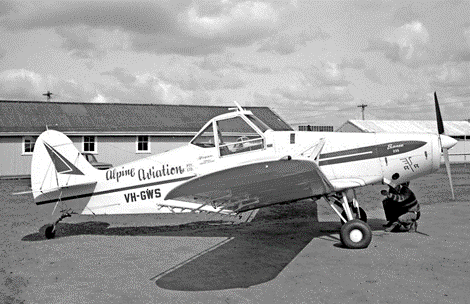 Pawnee fire bomber - 1967